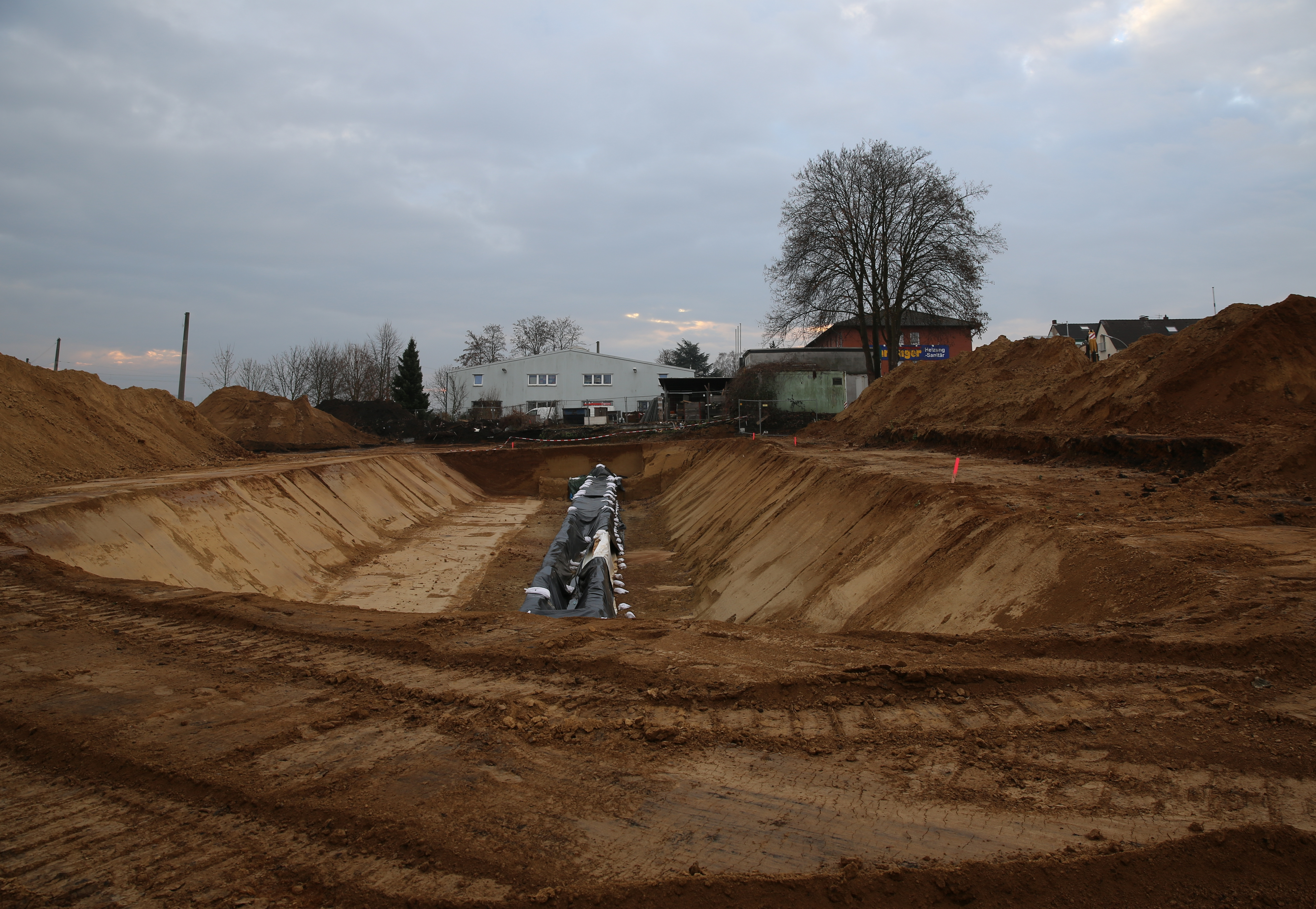 Part of Eifel aqueduct, located in Hürth, Germany